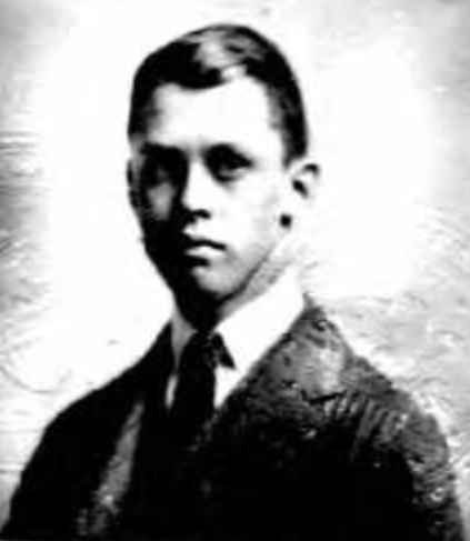 Photograph of George Thayer